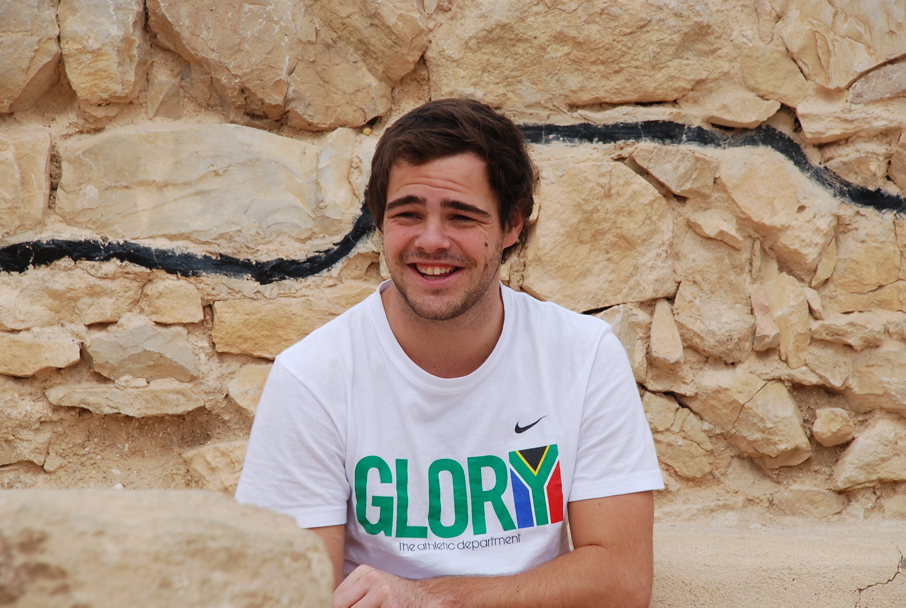 People of Israel